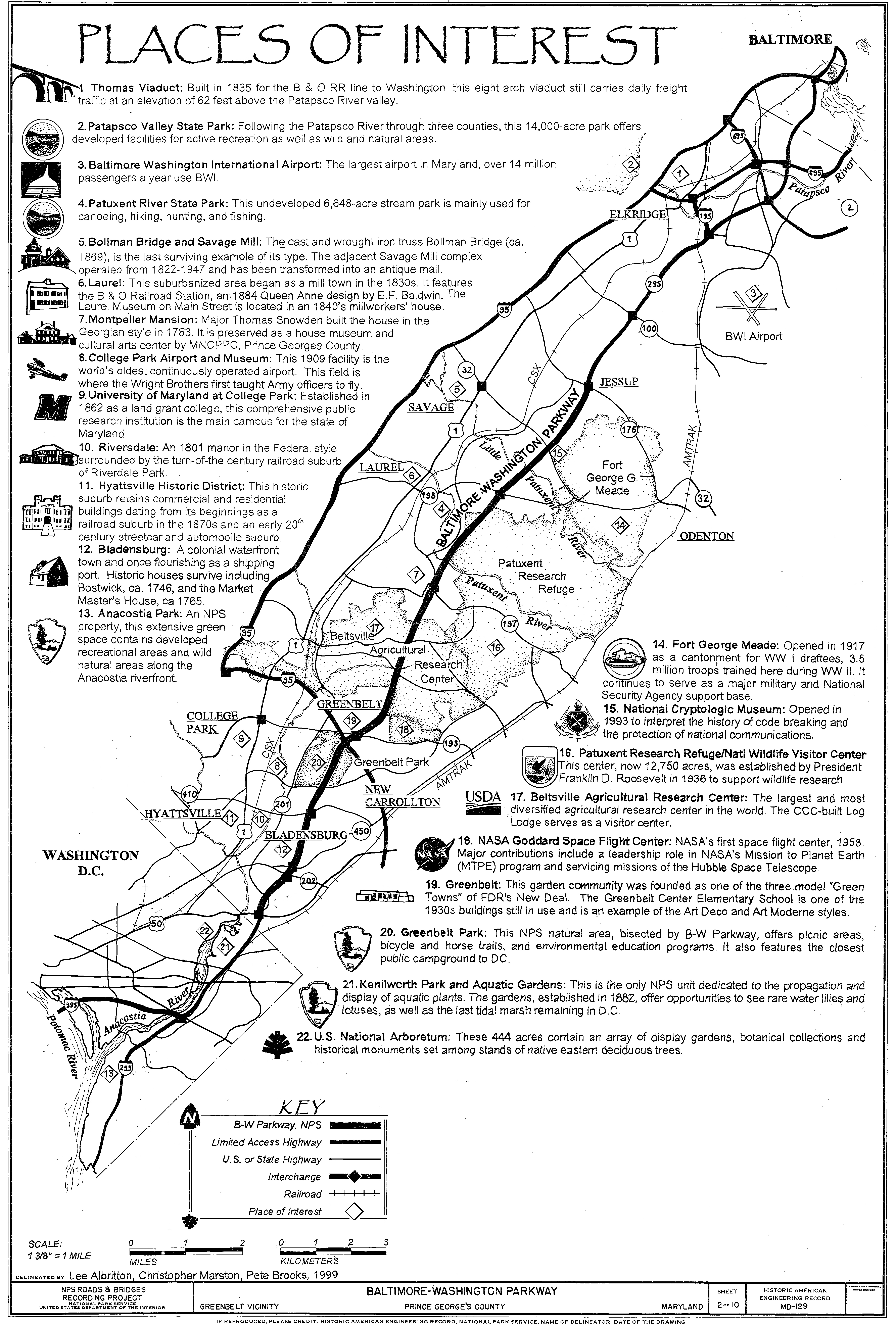 Historic American Engineering Record (HAER) measured drawing with illustrations and descriptions of places of interest located within close proximity to the Baltimore-Washington Parkway